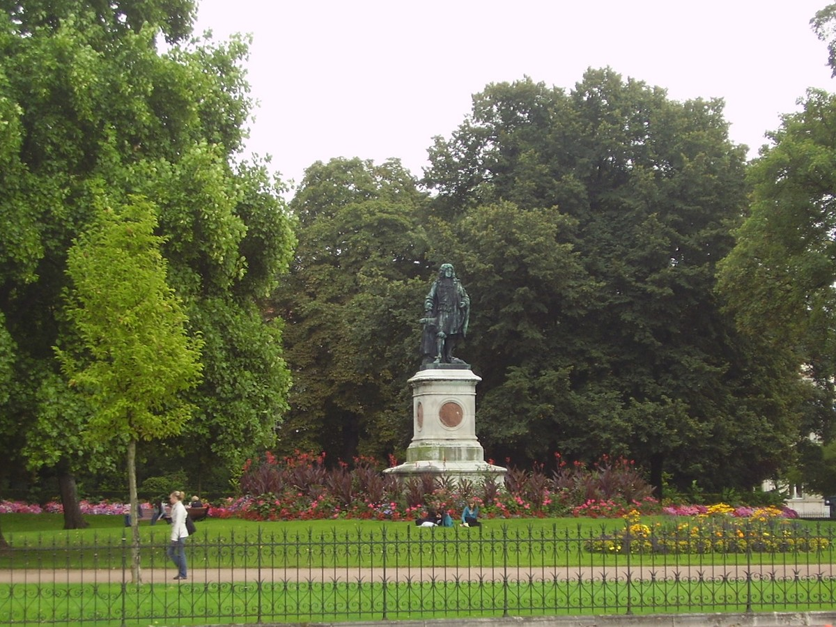 Square Colbert in Rheims, France